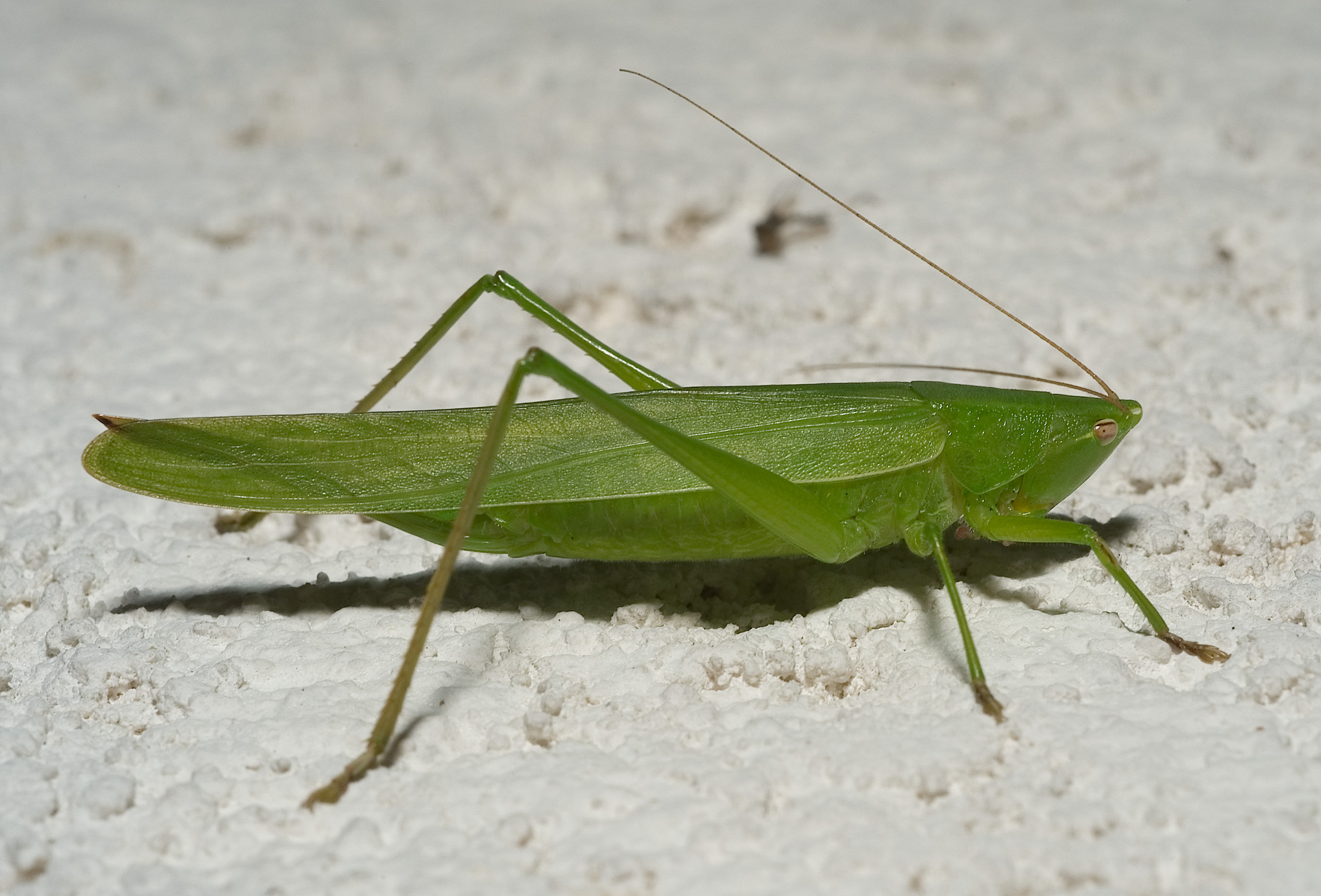 Please report references to kulacgmx.at.